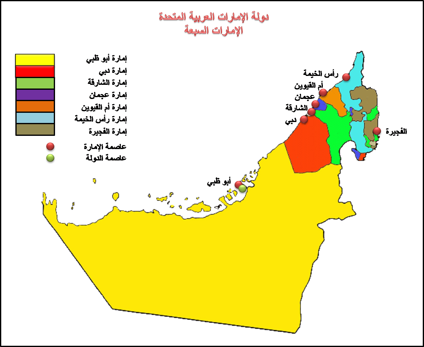 Map of the Emirates Yellow: Abu Dhabi Red: Dubai Green: Sharjah Dark Blue: Ajman Orange: Umm al-Quwain Light Blue: Ras Al-Khaimah Brown: Fujairah